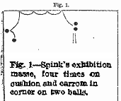 An extreme massé shot by William A. Spinks during an 1893 exhibition game against Jacob Shaefer Sr. Starting from bottom left, his cue ball swerves into and caroms off one object ball, then due to its extreme spin rebounds into the cushion four times before finally rolling away for a perfect, scoring hit on the other ball. And Spinks actually lost this game. Note: This is a derivative work; only the caption was available in large size, so I took the image and massaged the caption into it.